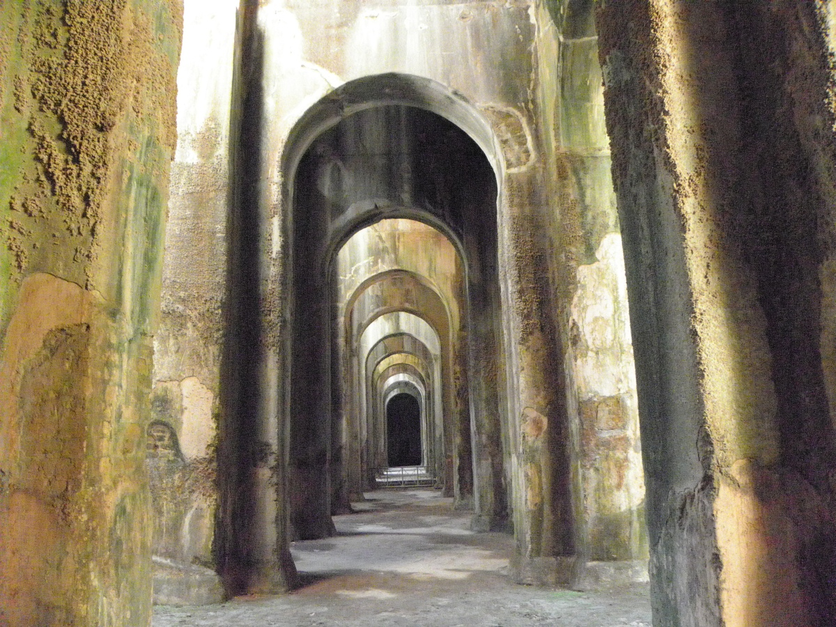 Baja